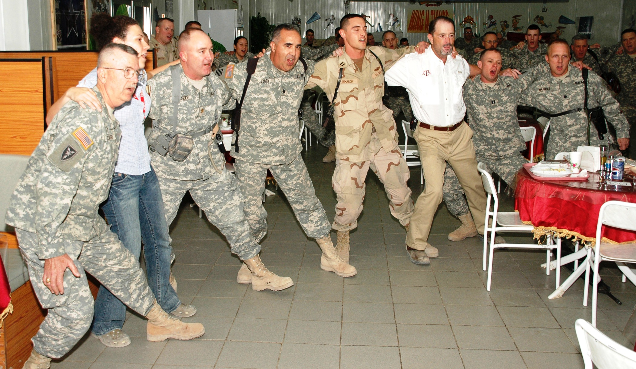 A group of Aggies sway while they sing the Aggie War Hymn during Texas A&M Aggie Muster on April 21, 2007, at the Oasis Dining Facility in Camp Victory, Iraq. Muster is an annual event that is celebrated at more than 300 locations worldwide. (U.S. Army photo by Master Sgt. Dennis Beebe) (Released)